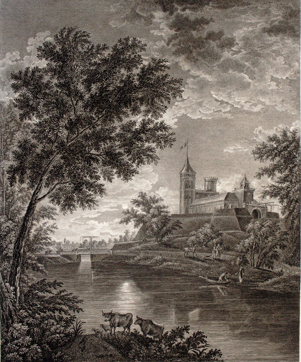 Andrey Ukhtomsky. View of Pavlovsk fortress by moonlight. Engraving.